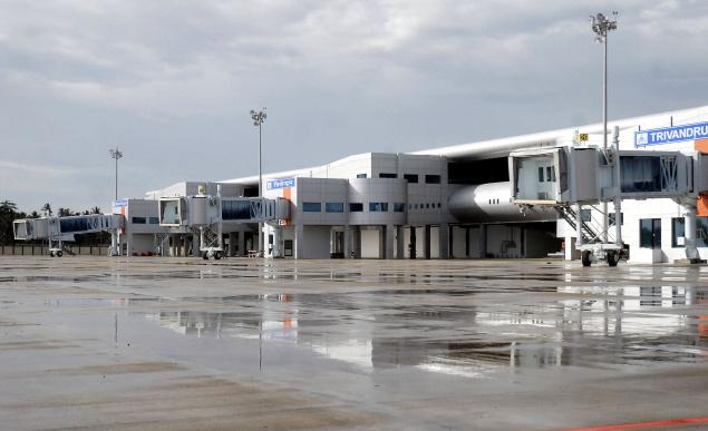 TRV Terminal 3 airside